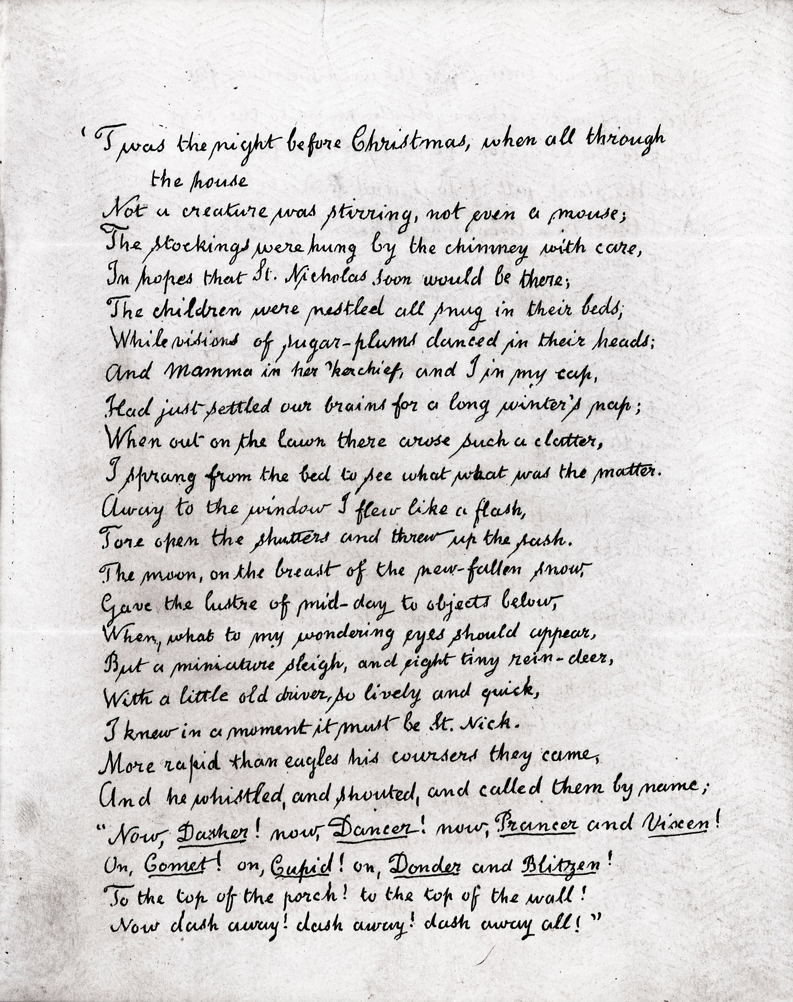 ‘A Visit From St. Nicholas’ handwritten Manuscript gifted by author Clement C. Moore